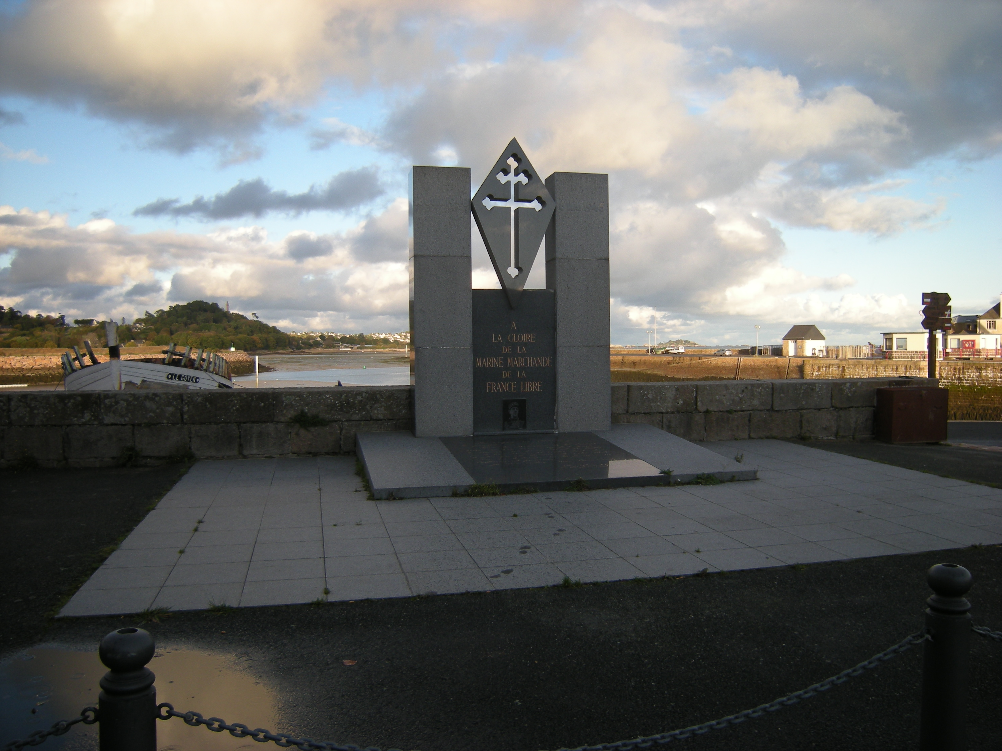 Memorial for sailors of the merchant marine of the France libre near the port of Paimpol, France (looking north-east)